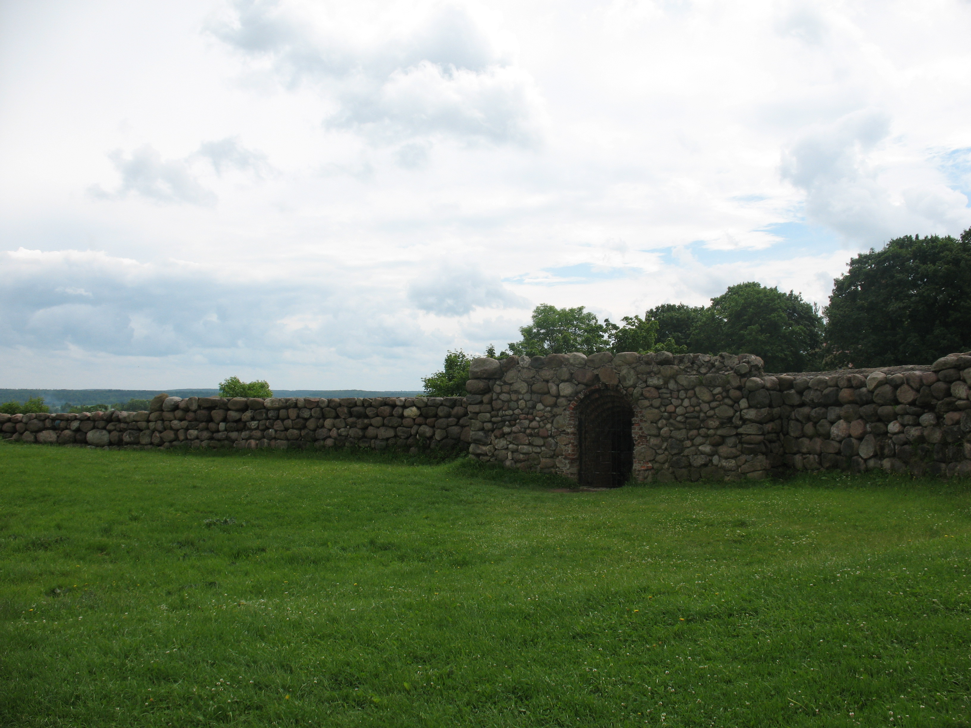 Беларуская (тарашкевіца): Рэшткі замка. г. Наваградак This is a photo of Belarusian heritage monument. Reference number: 411Г000404 ( WLM)